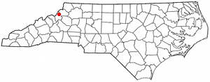 Category:North Carolina Dot Maps